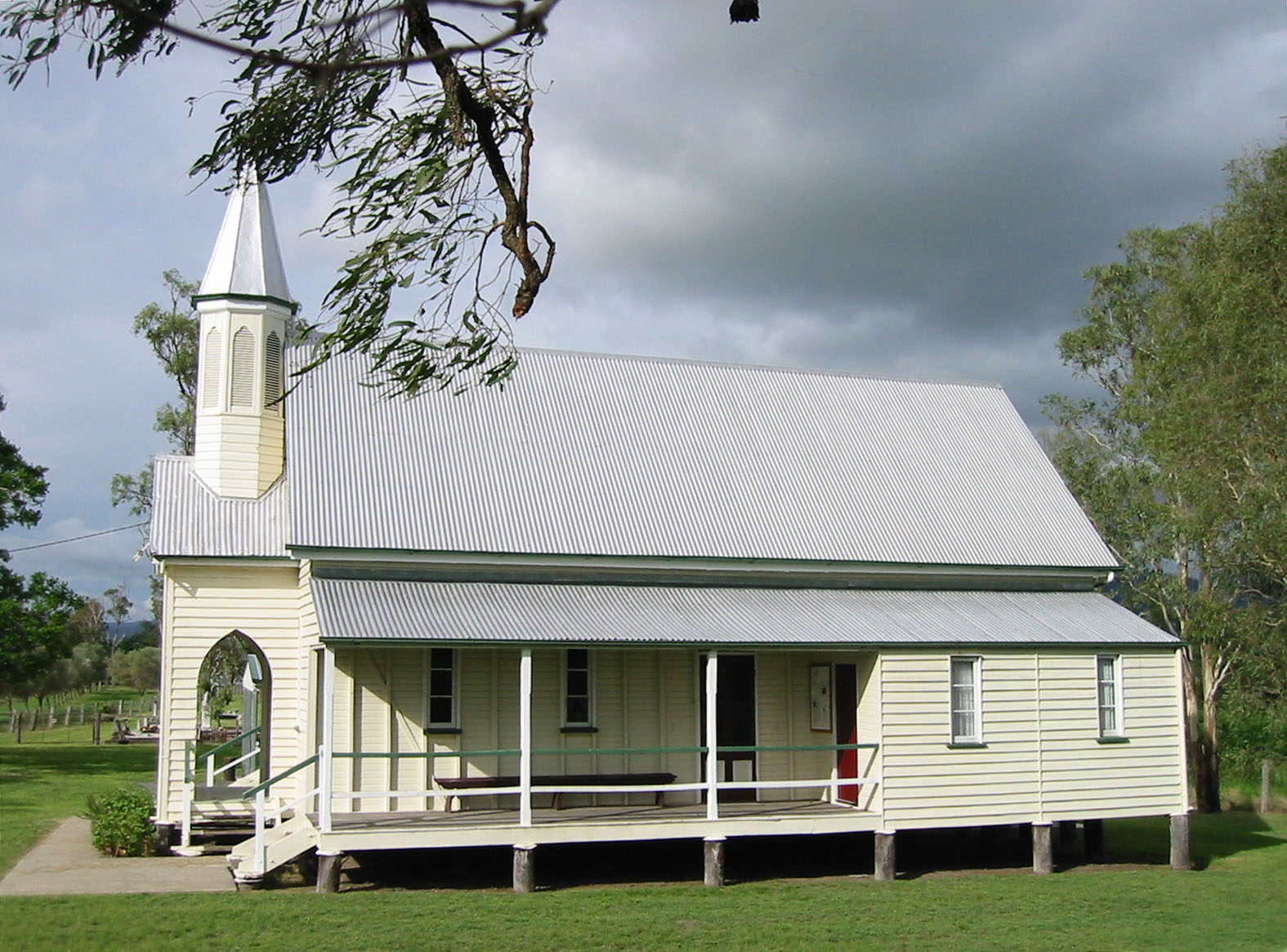 Caboonbah Undenominational Church seen from the road in 2010 on a grey, windy day.